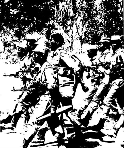 People's Liberation Army of Namibia on the move.